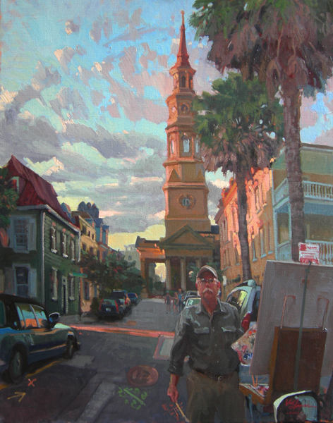 This is a self portrait by West Fraser, titled "The Last Street Scene"